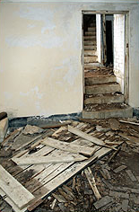 Operation Tracer, Gibraltar. Doorway to staircase and radio and toilet rooms.